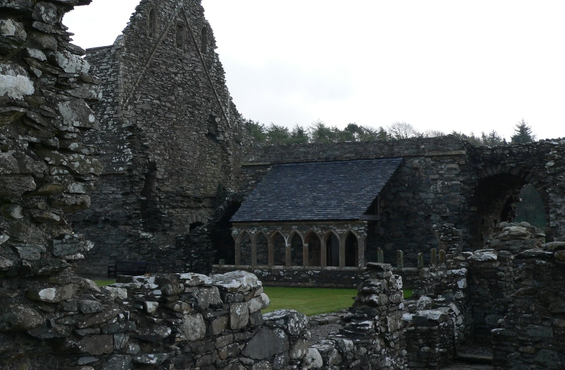 Glenluce Abbey, Dumfries and Galloway, Scotland - east range of cloister